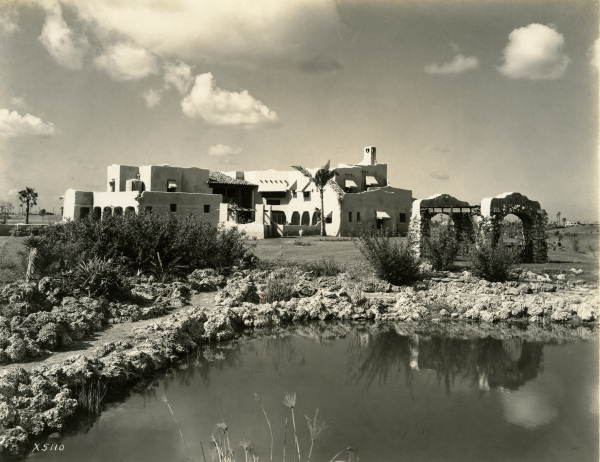 Local call number: PHF142 Title: Glenn H. Curtiss House: Miami Springs, Florida Date: January 4, 1927 General note: The Glenn H. Curtiss House, located at 500 Deer Run in Miami Springs, Florida, was built in 1925 by aviation pioneer and real estate developer Glenn Hammond Curtiss. It was added to the National Register of Historic Places in 2001. Physical descrip: 1 photonegative - b&w - 4 x 5 in. Series Title: Fishbaugh Collection Repository: State Library and Archives of Florida, 500 S. Bronough St., Tallahassee, FL 32399-0250 USA. Contact: 850.245.6700. Persistent URL